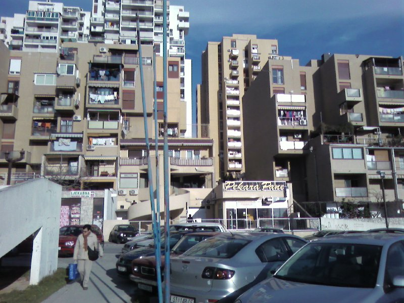 Picture of Mertojak (Split)